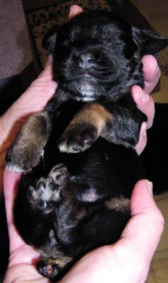 American Cocker Spaniel black and tan pup 4 days old with recently docked tail.